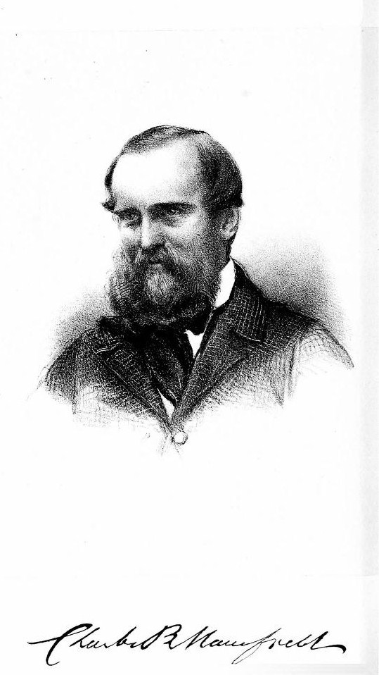 Portrait of Charles Blachford Mansfield (1819–1855), British chemist and author.